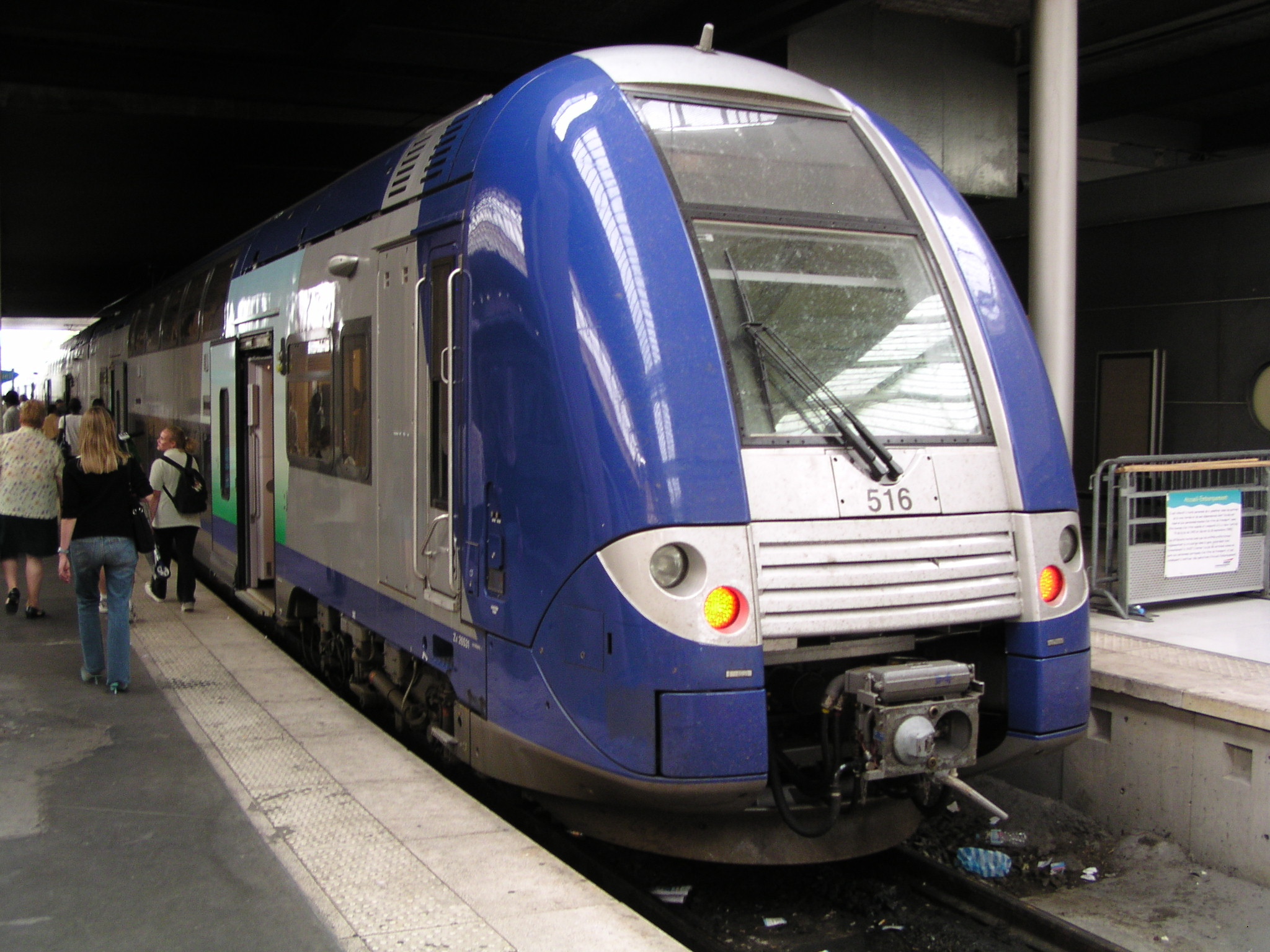 SNCF Class Z26500, no. Z 26531 at Paris Gare du Nord on 5th September 2005. Image by Phil Scott (Our Phellap)